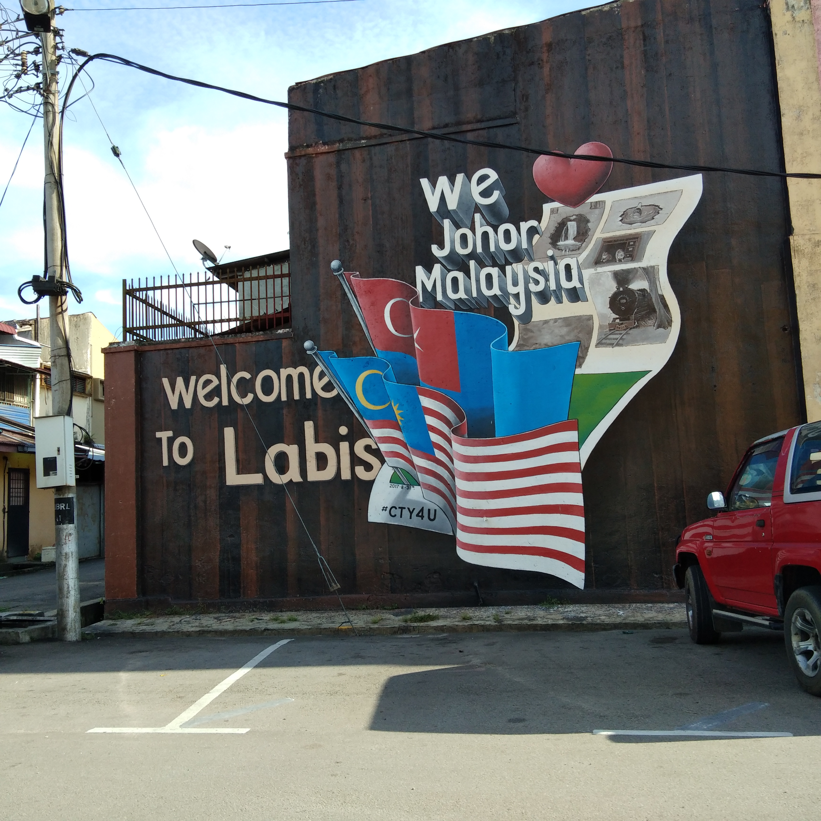 Labis Street Art 01